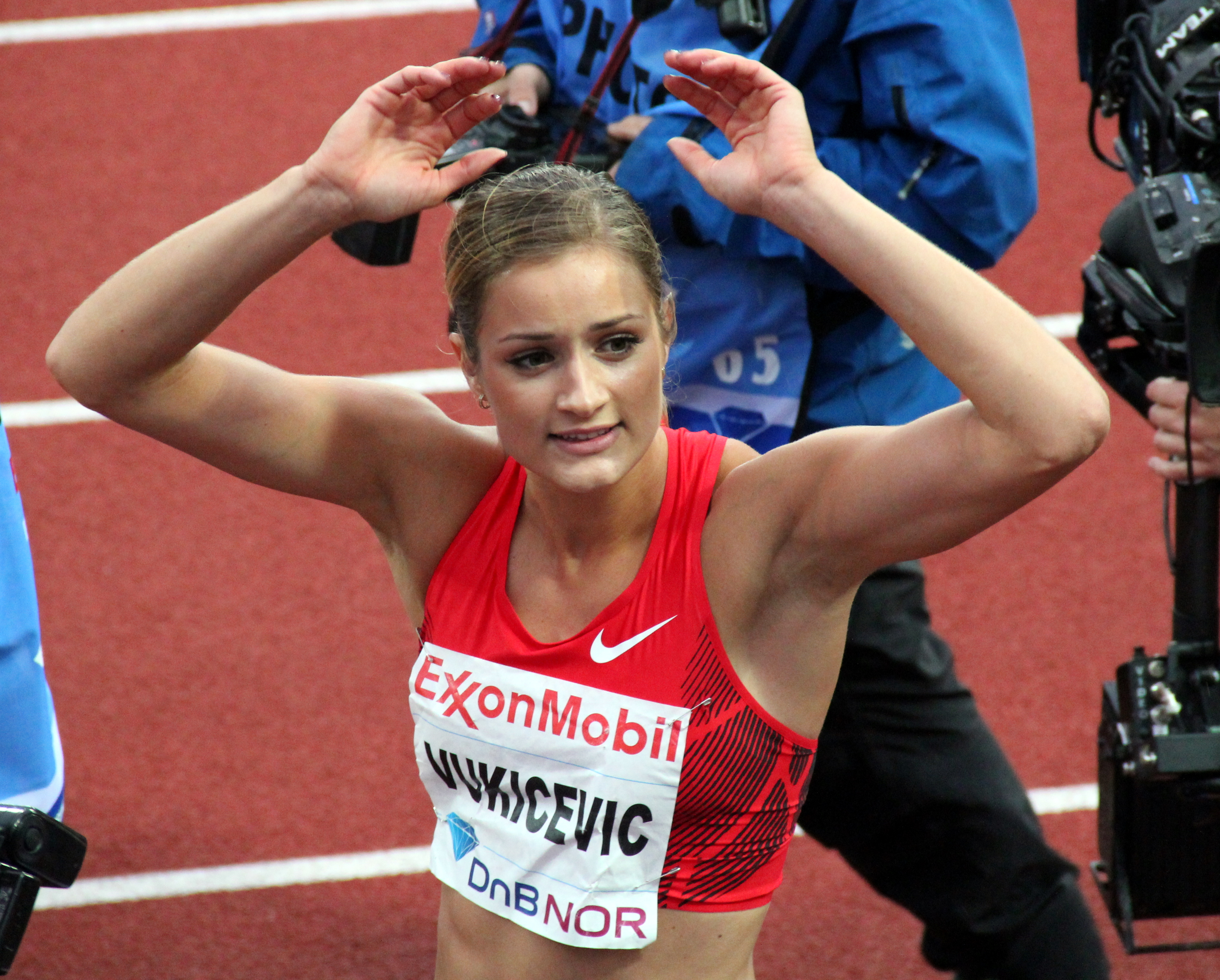 Christina Vukicevic at the 2011 Bislett Games